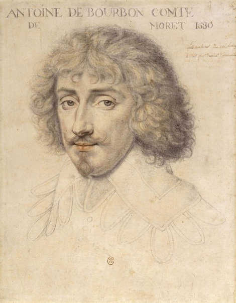 Portrait of Antoine de Bourbon, count of Moret